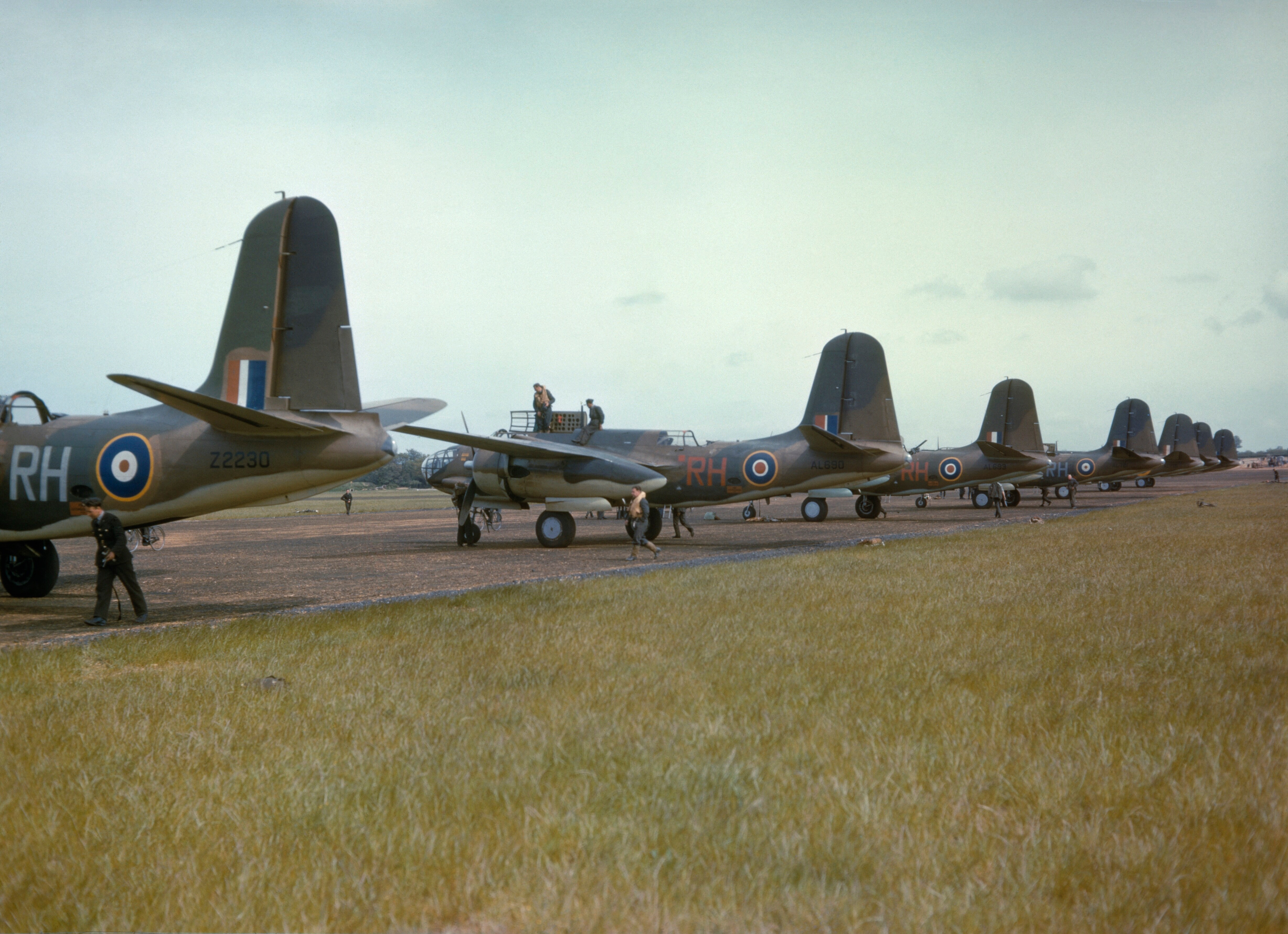 Royal Air Force Douglas Boston Mark IIIs of No. 88 Squadron RAF, lined up at RAF Attlebridge, Norfolk (UK). The airfield was used by No. 88 Squadron RAF from August 1941 to September 1942.